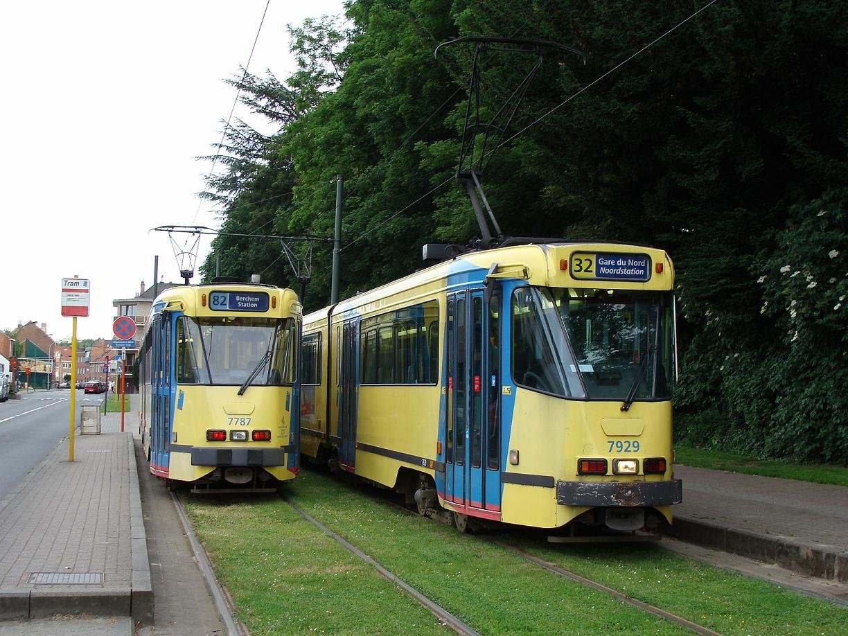 Motor coaches 7787 and 7929 coast at coast with Drogenbos Castle